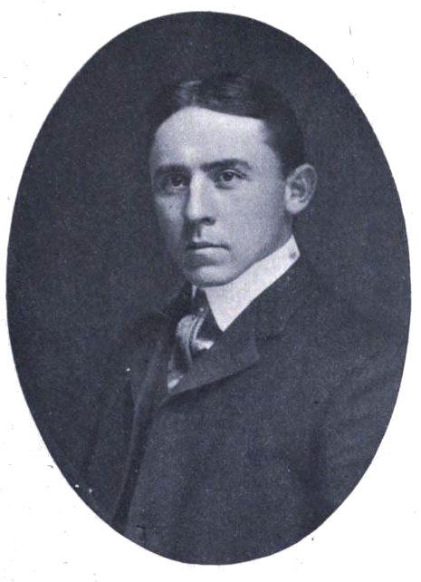 William Dutcher